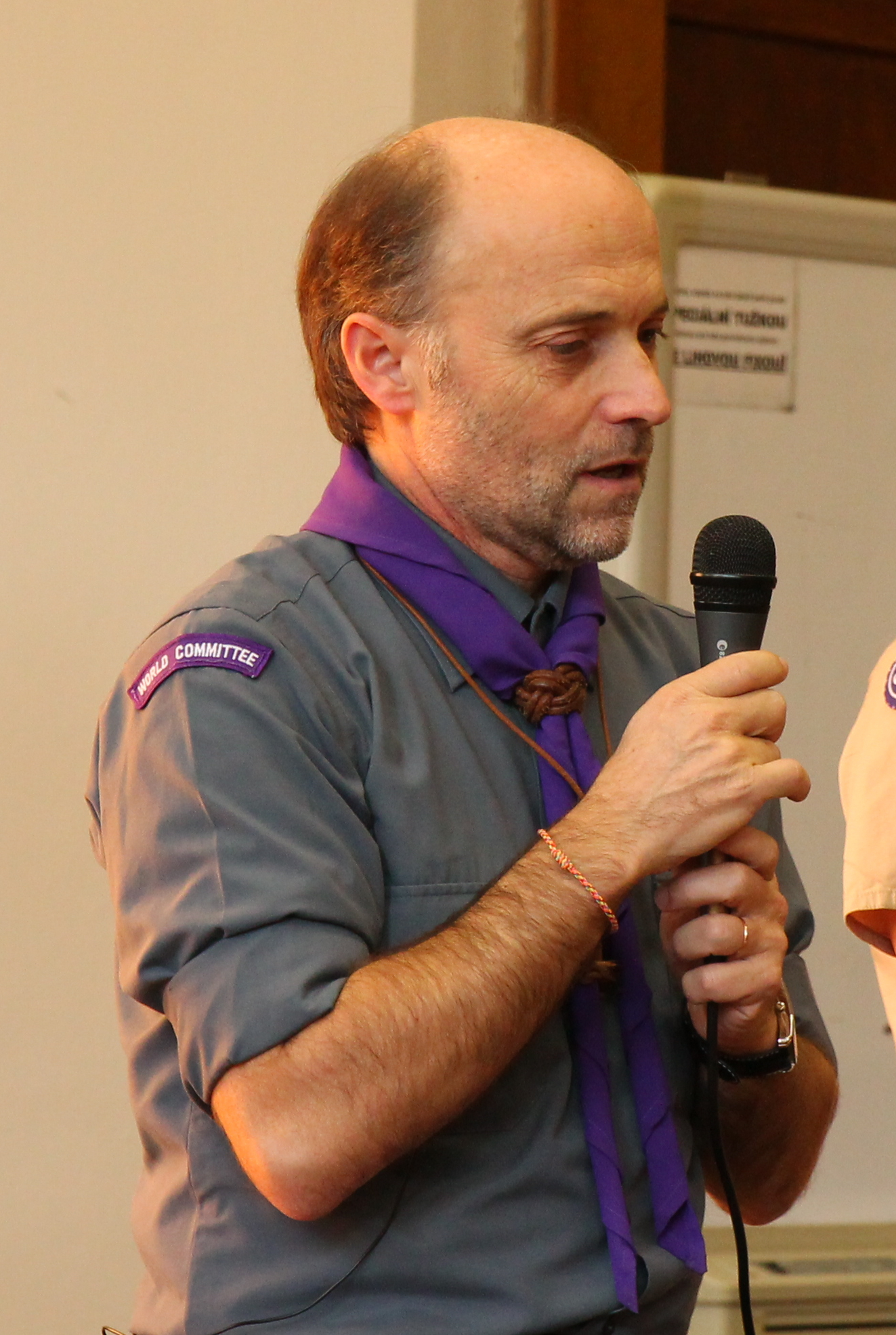 João Armando Gonçalves during Nicholas seminar at Faculty of Law, Charles University, Prague